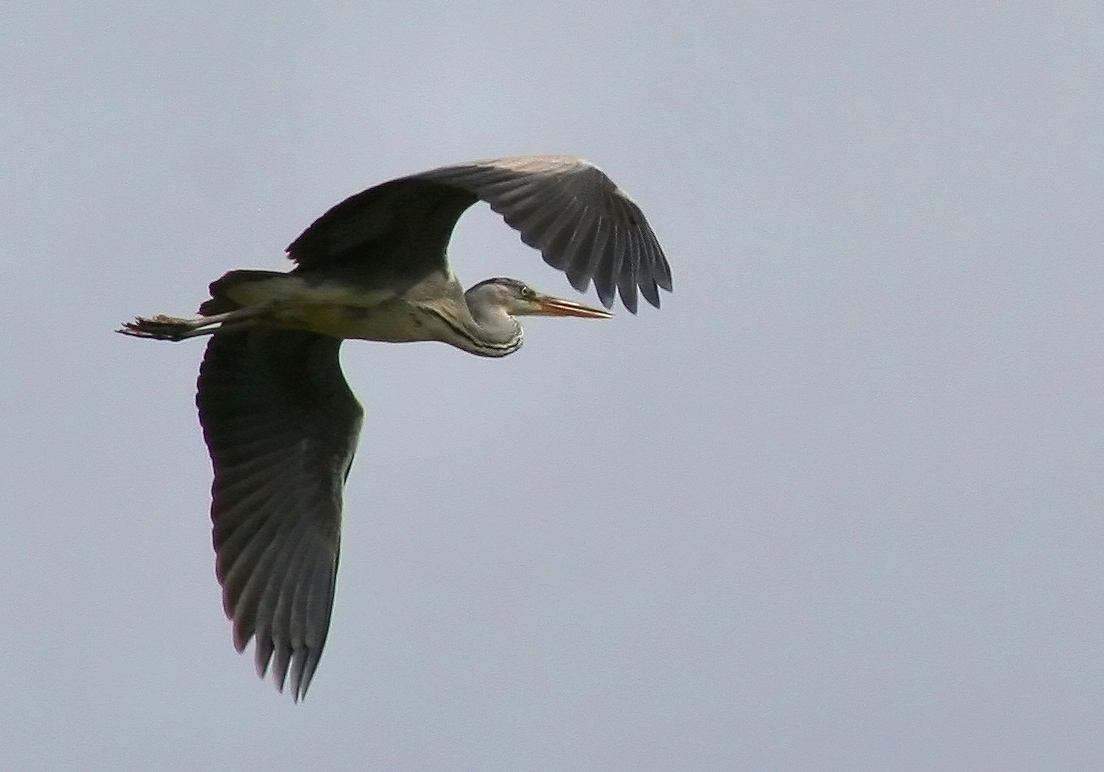 Ardea cinerea Czapla siwa, Grey Heron.